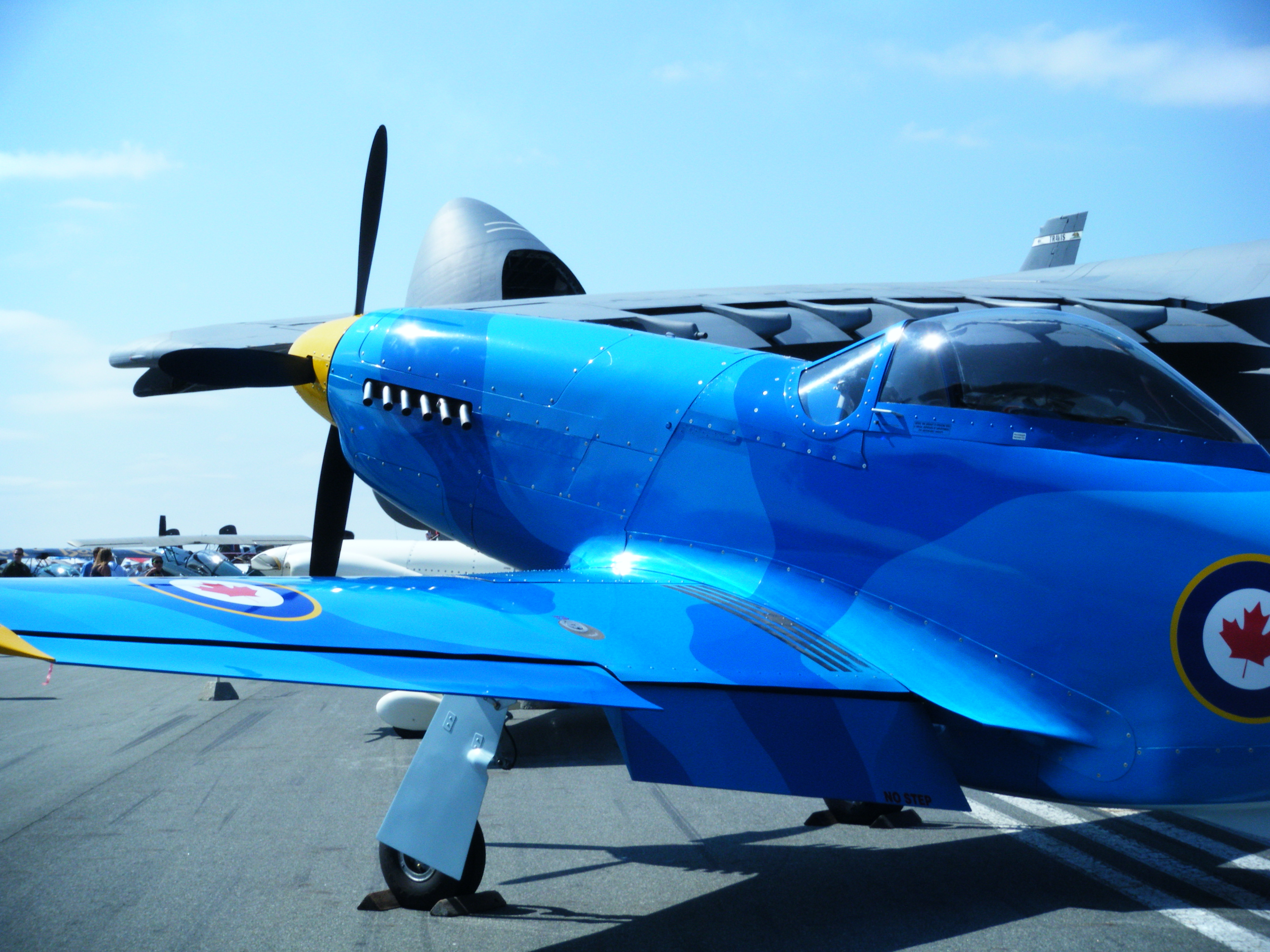 Propeller plane at the Abbotsford air show